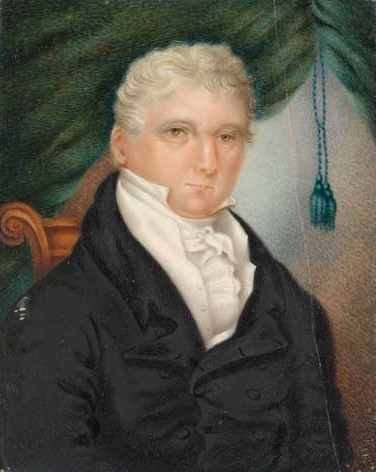 Portrait (miniature?) of Simeon Lord, ex-convict and wealthy merchant in early NSW.